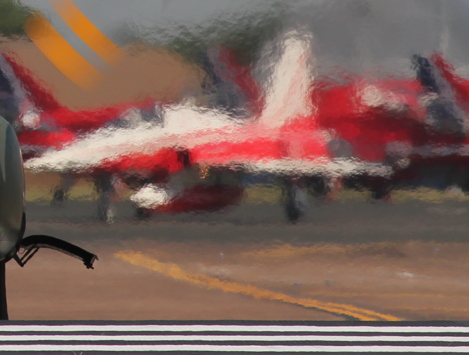 Patrouille Suisse F-5E at Fairford 19.7.10